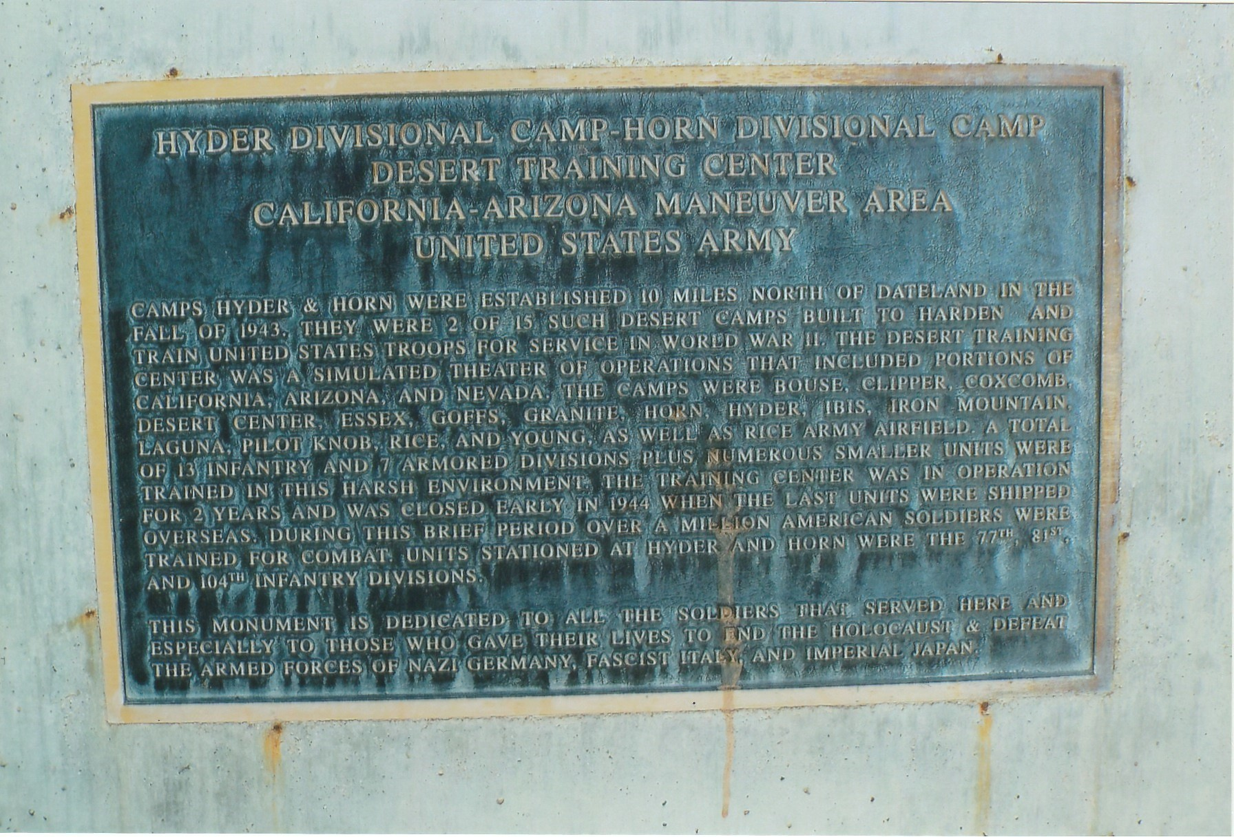 Camp Hyder Monument/Plaque - dedicated to all the soldiers that served here and especially to those who gave their lives to end the Holocaust & defeat the Armed Forces of Nazi Germany, Fascist Italy, and Imperial Japan. It is located on East 64th Avenue.